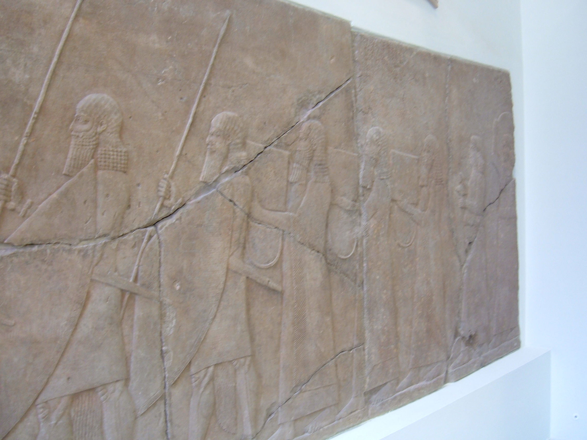 An Assyrian wall relief from Nineveh on display at the Pergamon Museum in Berlin, Germany.